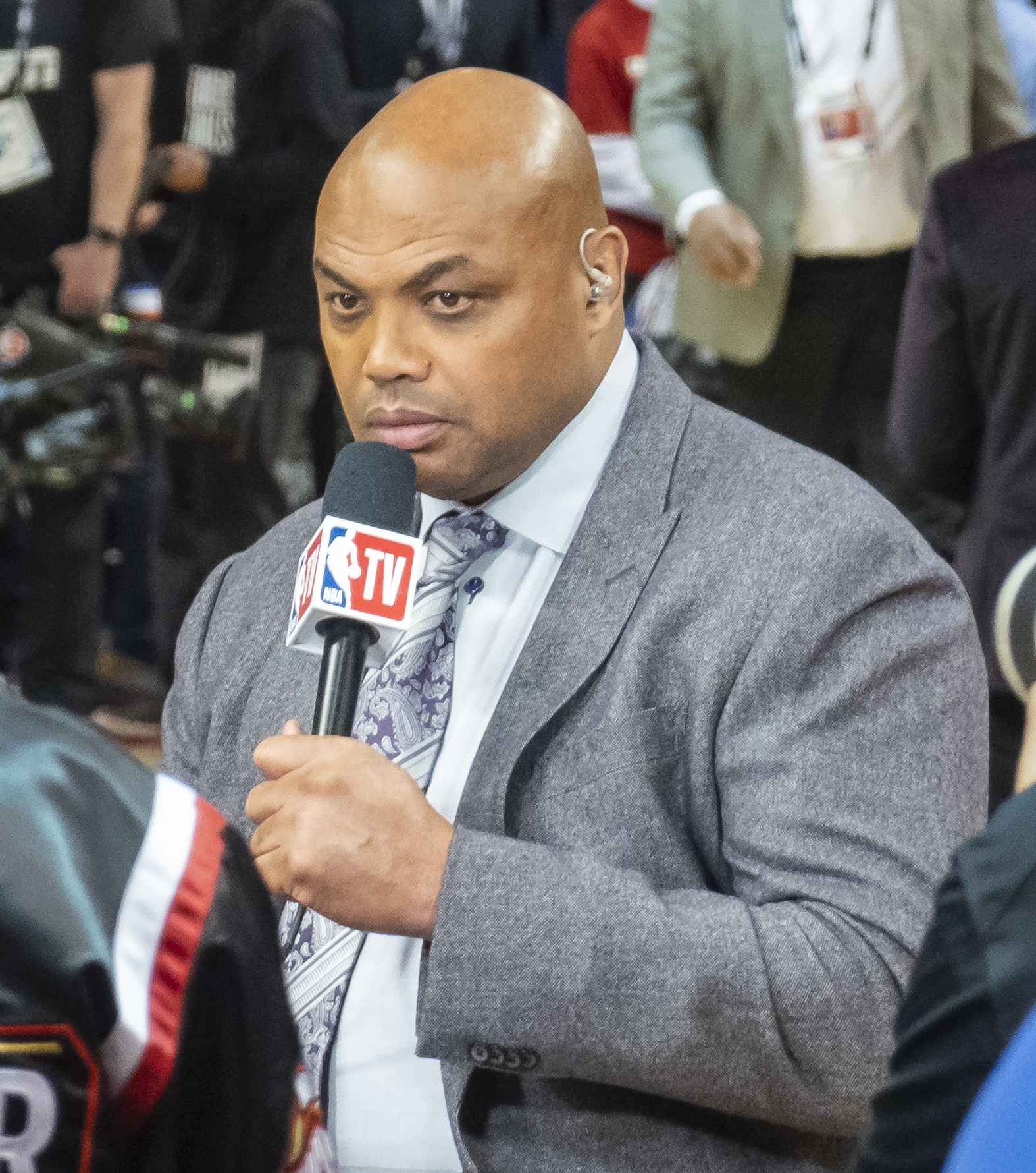 Charles Barkley at 2019 NBA Finals